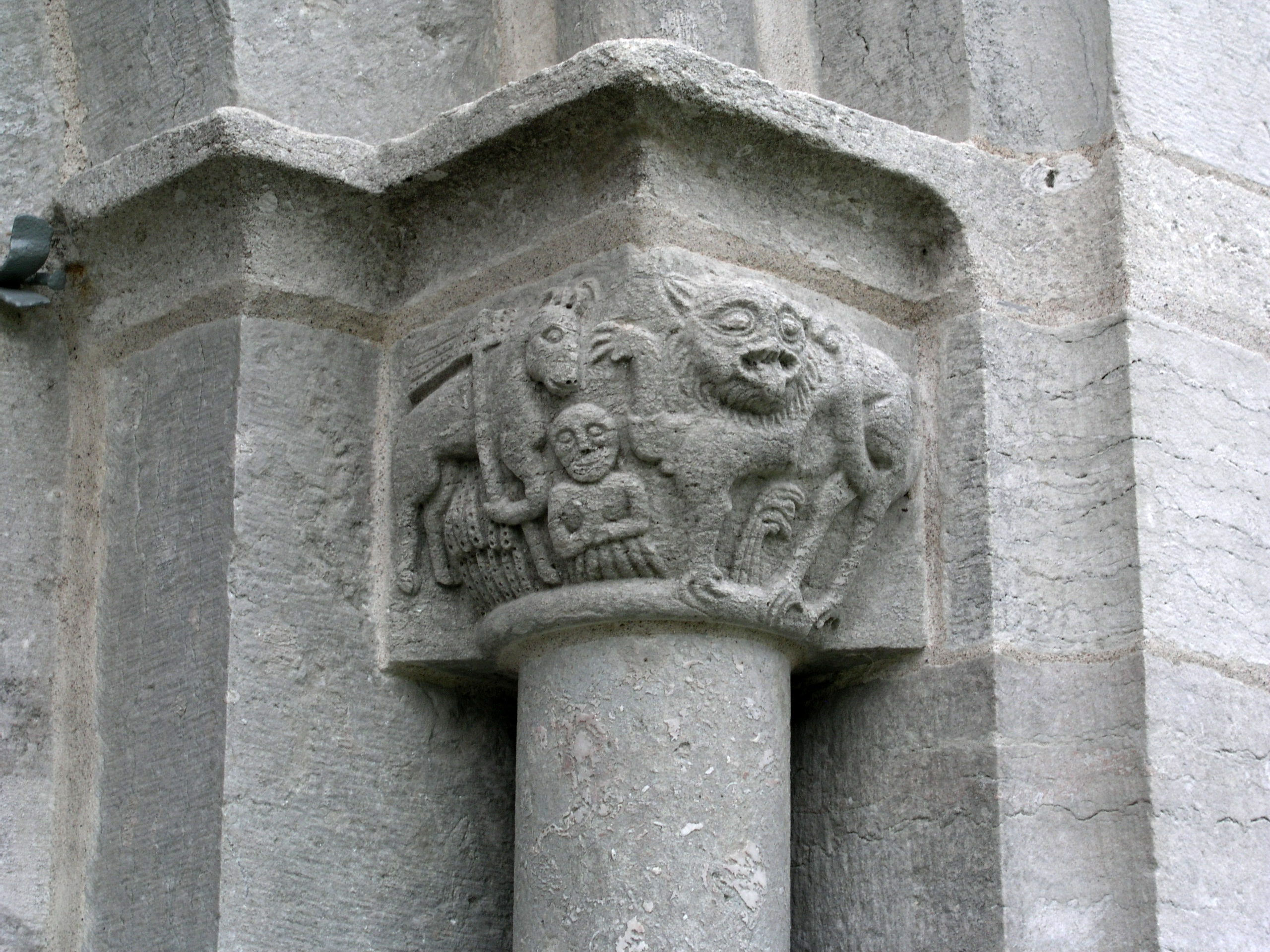 Lau kyrka / Lau church, Diocese of Visby, Gotland, Sweden. Relief.